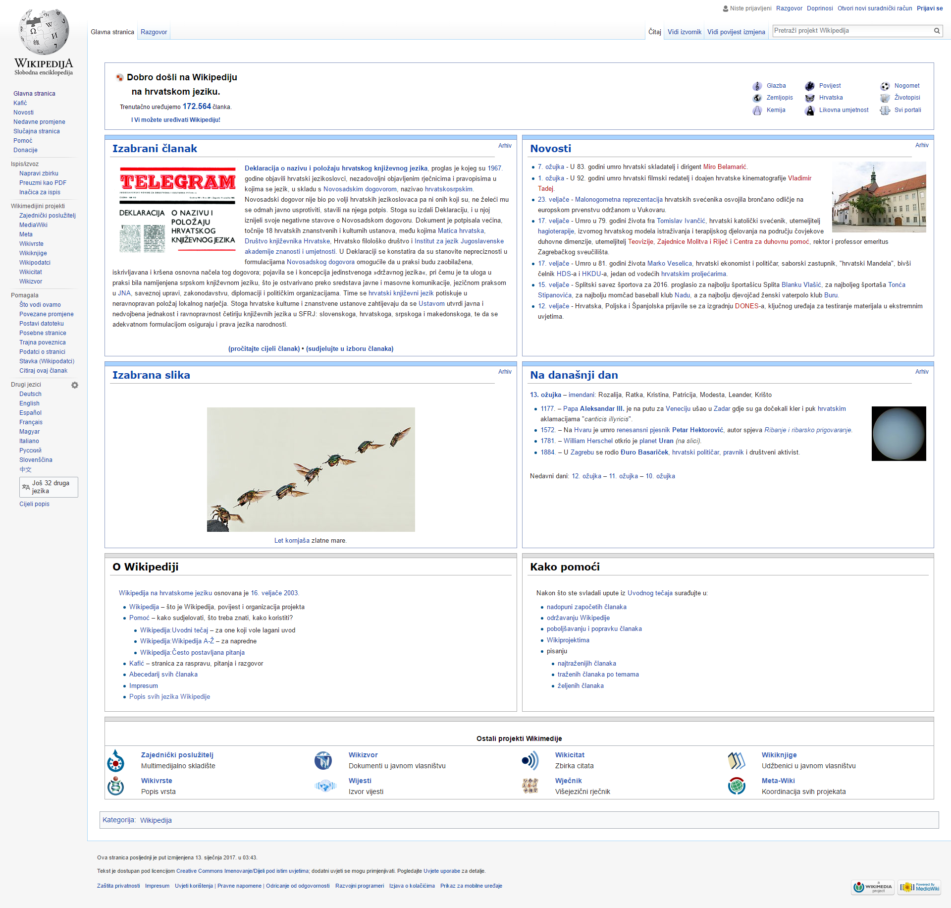 Screenshot Croatian Wikipedia